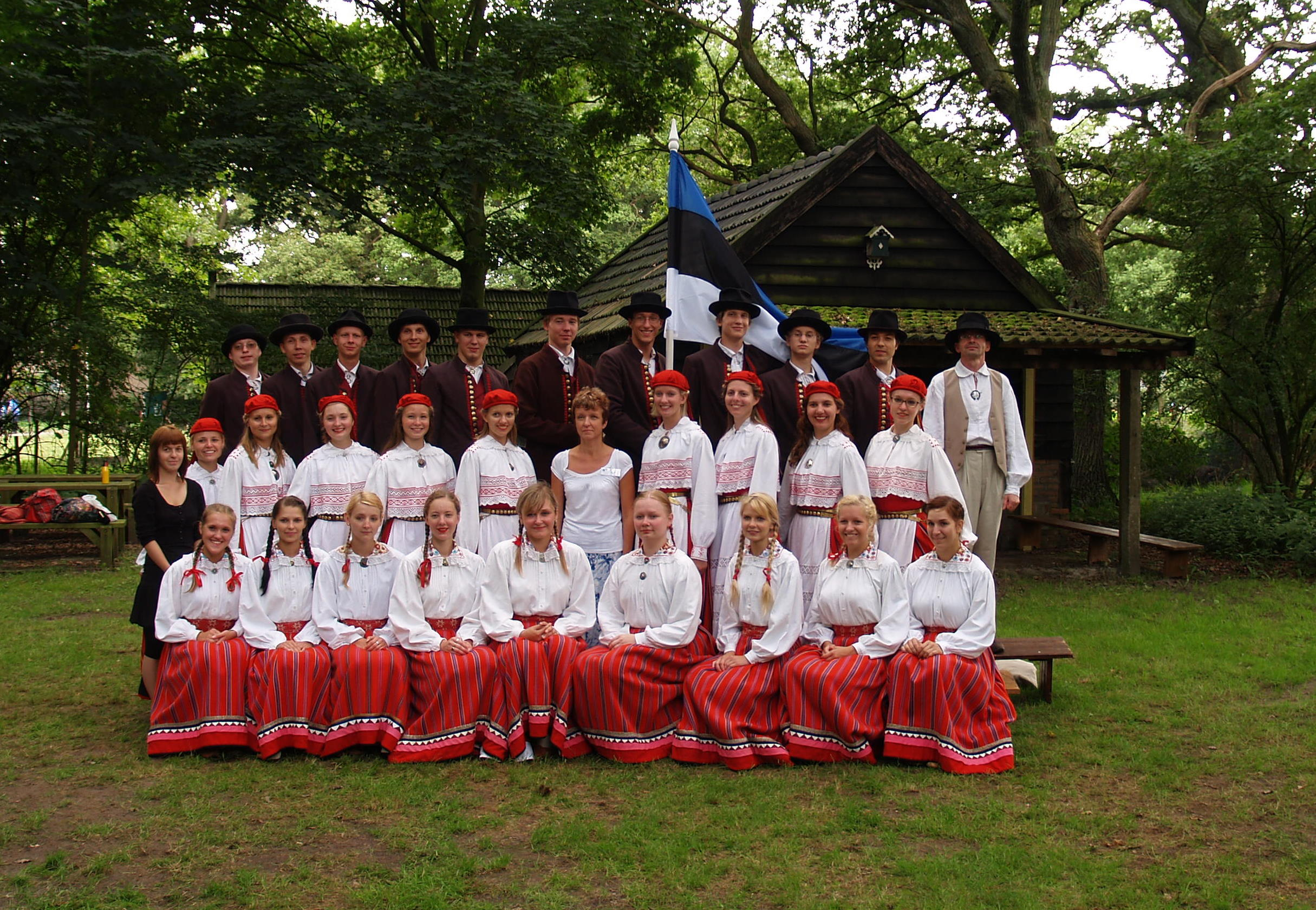 Tartu University’s Folk Art Ensemble in SIVO festival.